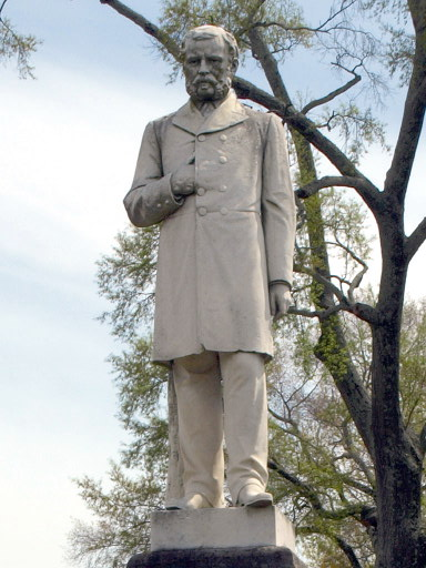 The Samuel Noble Monument in Anniston, Alabama, listed on the National Register of Historic Places